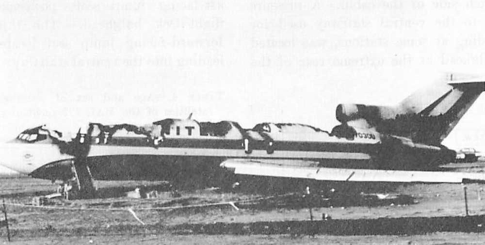 United Airlines N7030U wreckage